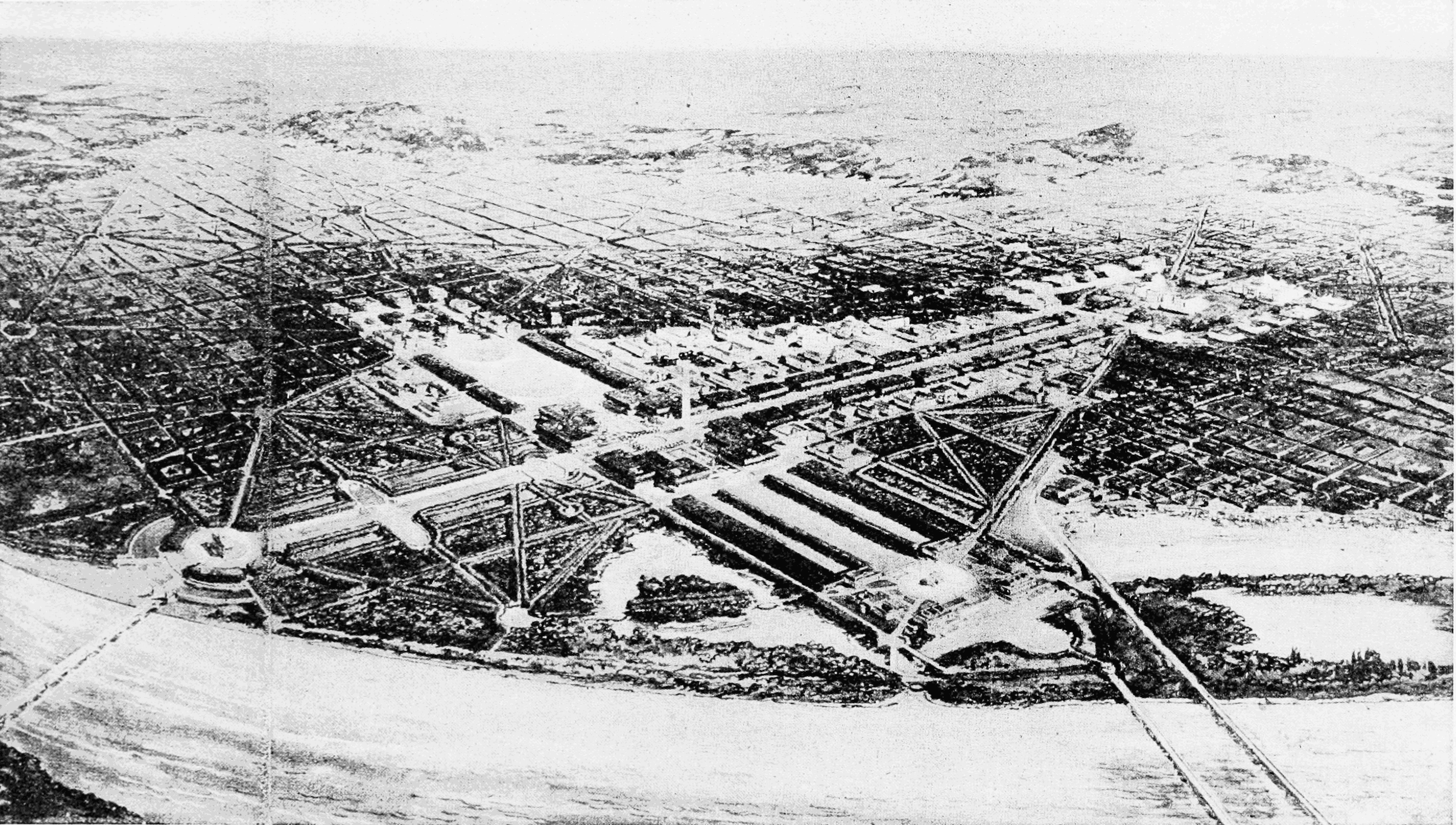 Aerial view of Washington DC urban renewal plan